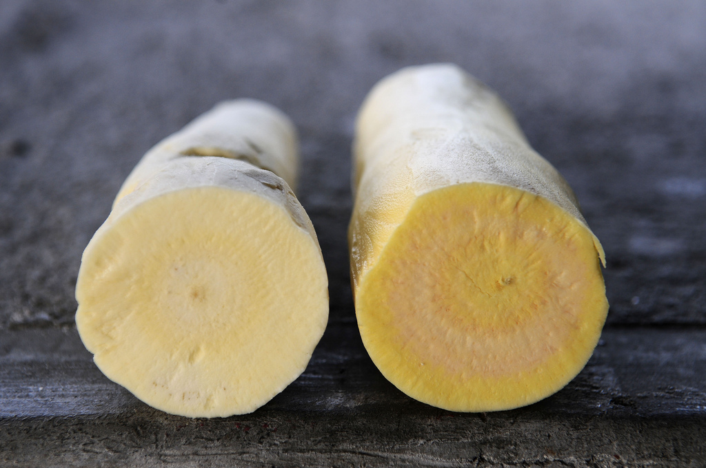 Improved cassava root (right) with increased levels of beta-carotene, which reduce post-harvest physiological deterioration in this crucial staple crop, and contribute to improved nutrition